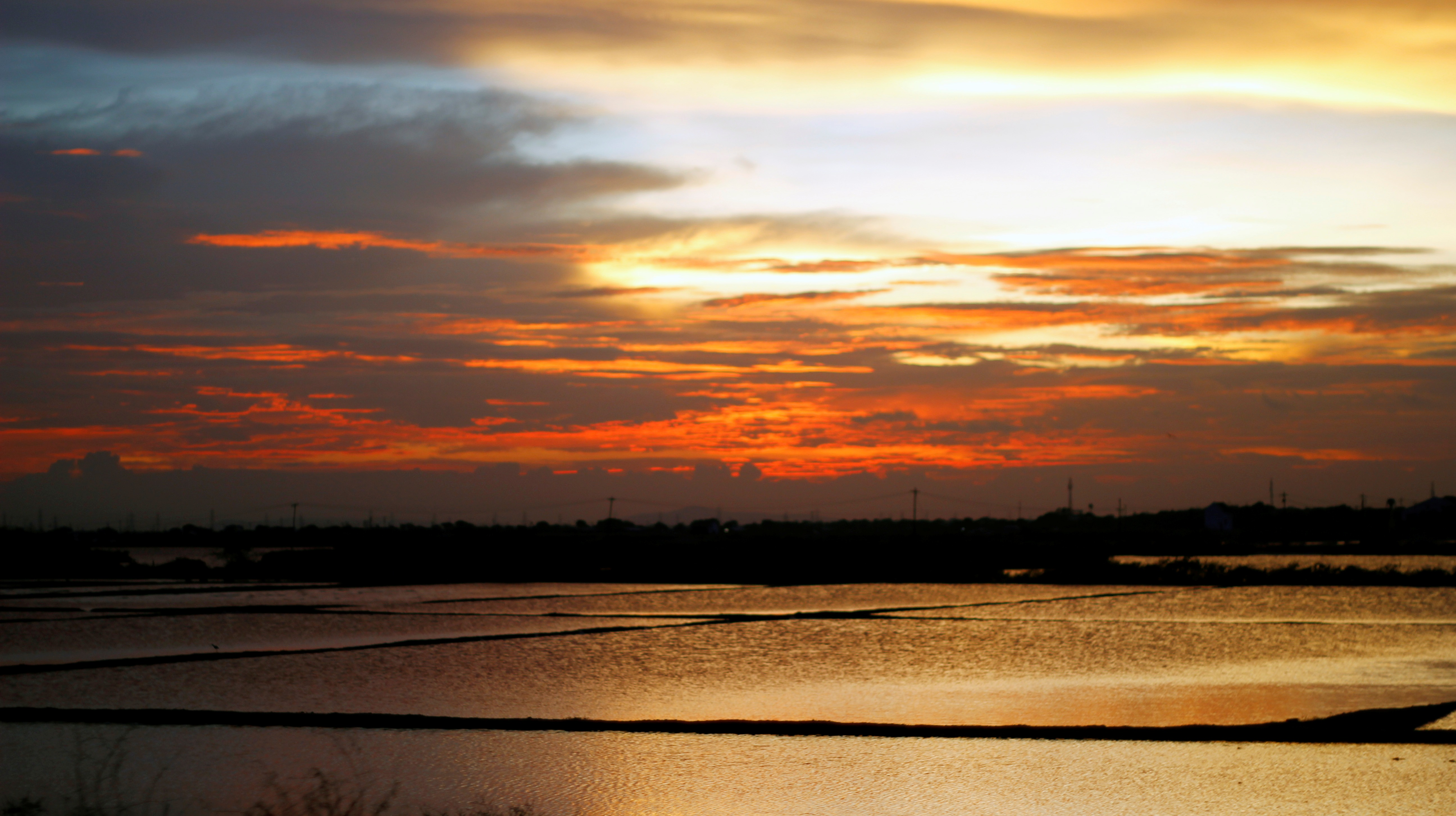 Thoothukudi (Tamil: தூத்துக்குடி), also known as Tuticorin, is a port city and a Municipal Corporation in Thoothukudi district of the Indian state of Tamil Nadu, India. Thoothukudi is the headquarters of Thoothukudi District.